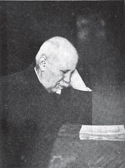 Konstantin Valkanov.